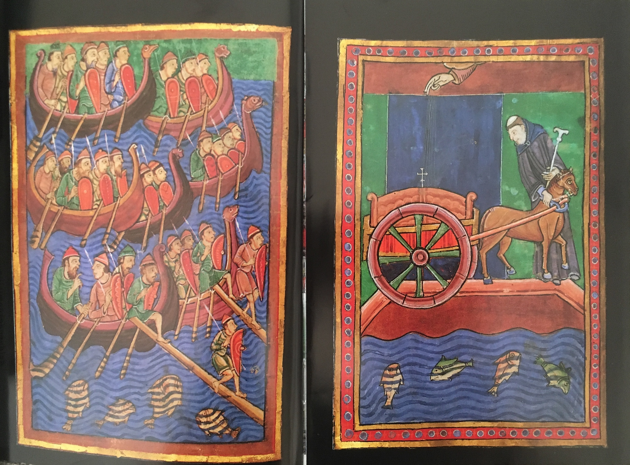 Invasion of England by Ivar the Boneless in 886. Illuminations of an English history of the 11th century. Pierpont Morgan Library, New York. — Opening of The Vikings: Lords of the Seas by Yves Cohat, ‘New Horizons’ series, Thames & Hudson, 1992. Description on page 170.